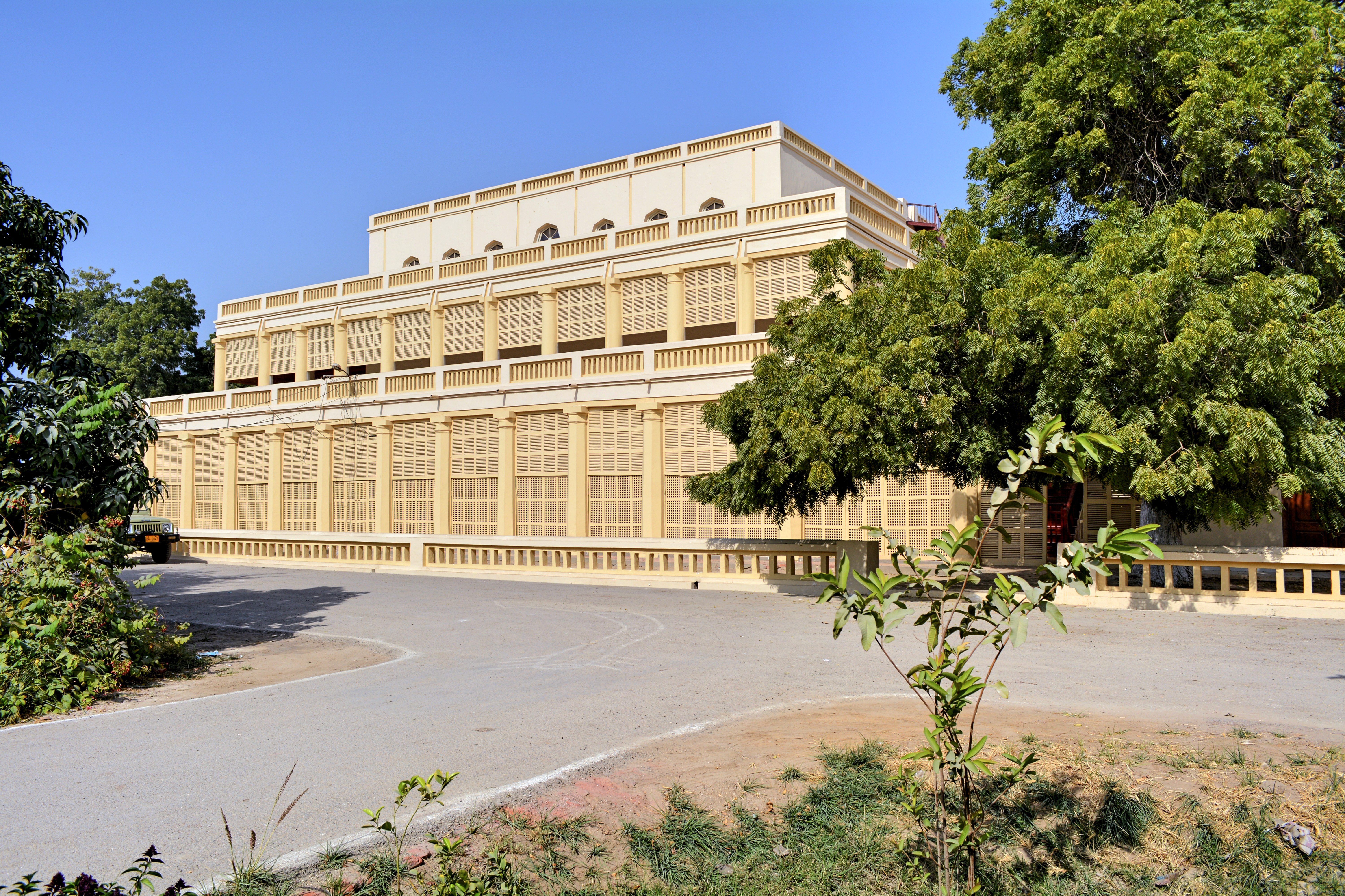 Badshahi Bungalow This is a photo of a monument in Pakistan identified as the SD-U-1